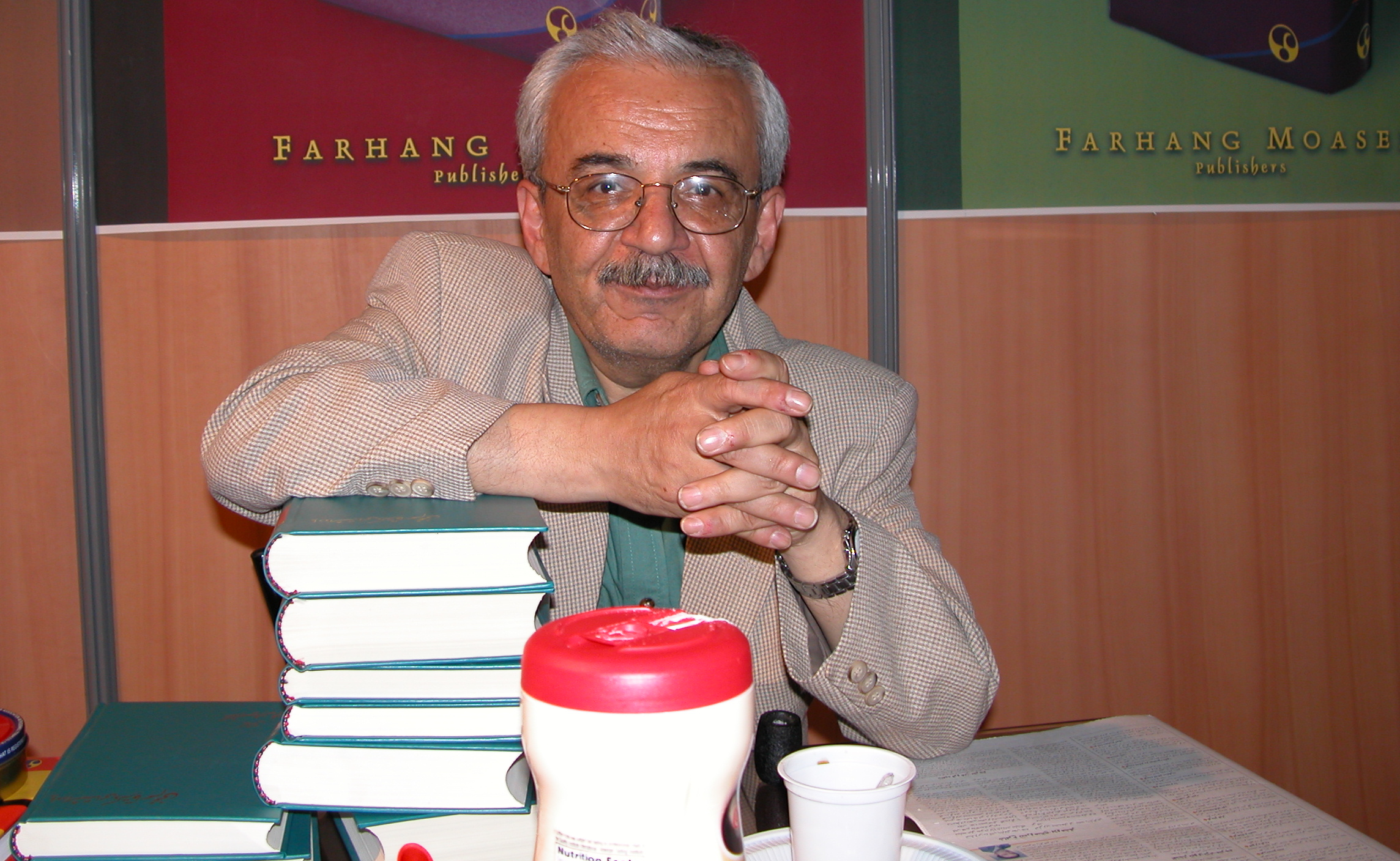 Hossein Masoumi Hamedani